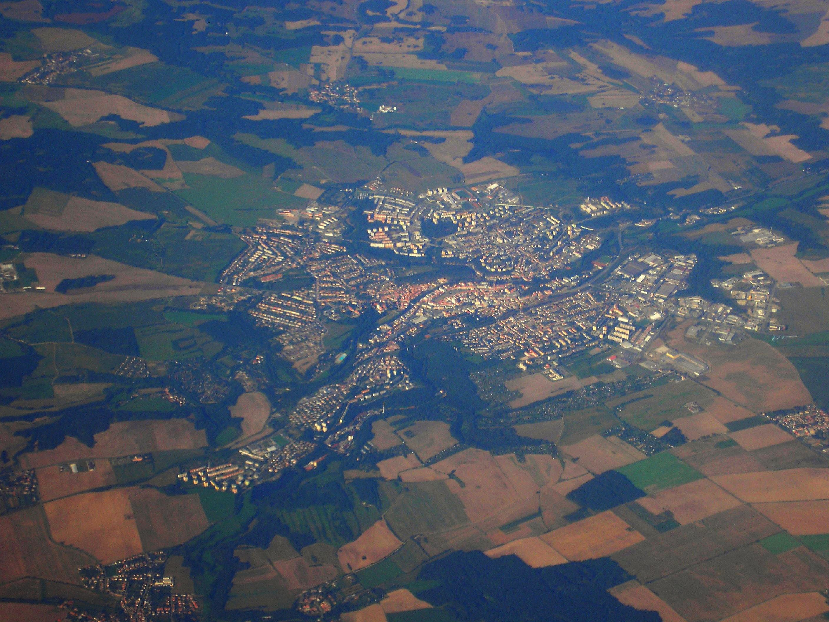 View of Třebíč from air coridor Bratislava, Wien (Vienna) - Praha (Prague)